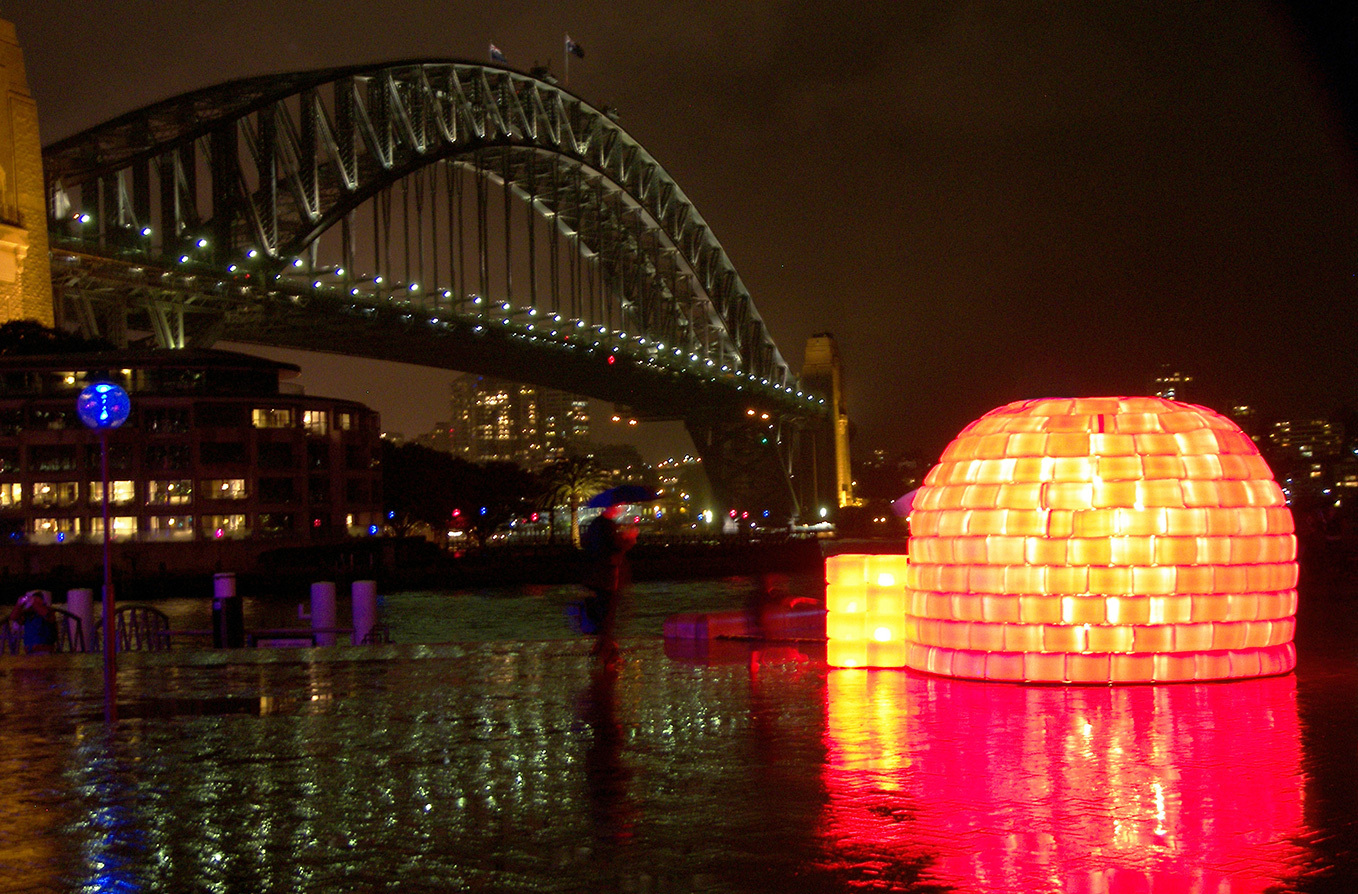 The artist BIBI designs the BIBIGLOO in 2010. It has been exhibited in Wirksworth, Singapore, Sydney, Moscow.